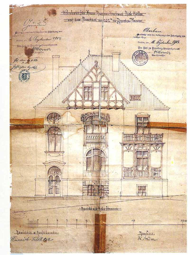 Dresden Hohe Straße 139 Bauakte 1904